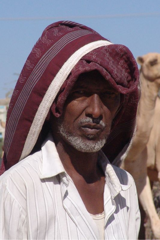 Camel trader in Hargeisa. Image taken by Charles Fred on flickr. The creator has granted GFDL licensing and permission for use in the wikimedia project.